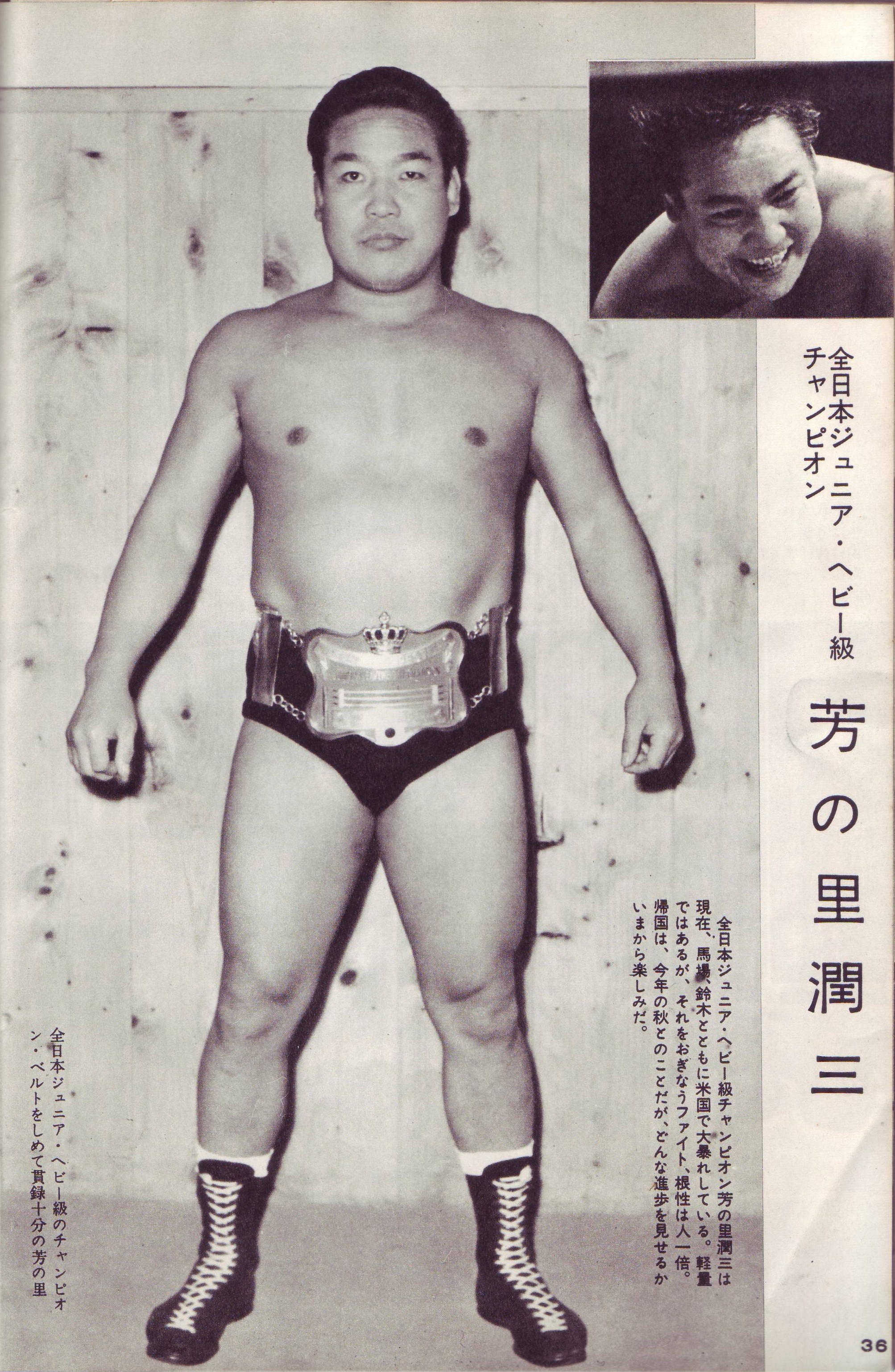 Yoshinosato ("Devil Sato". Japanese professional wrestler). taken in Before 1961.